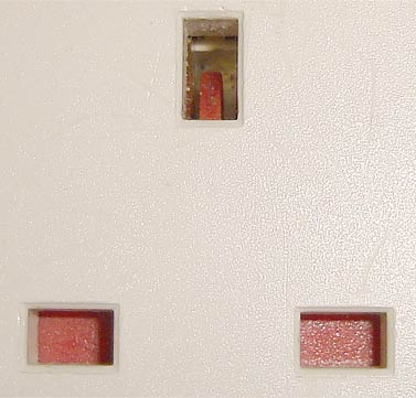 A BS 1363 Type Electrical Socket